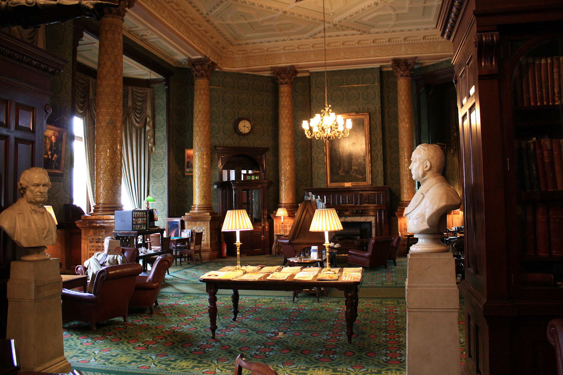 The National Liberal Club was the last major project undertaken by Alfred Waterhouse. I'm told that, when it was completed in 1887, the Club occupied the entire building – a testament to the prominence of the Liberal Party at the time. Its first Chairman was William Ewart Gladstone. The fact that the Club now ony occupies the Whitehall Place end of the building is probably a reflection of the decline of the party over to past 100 years.